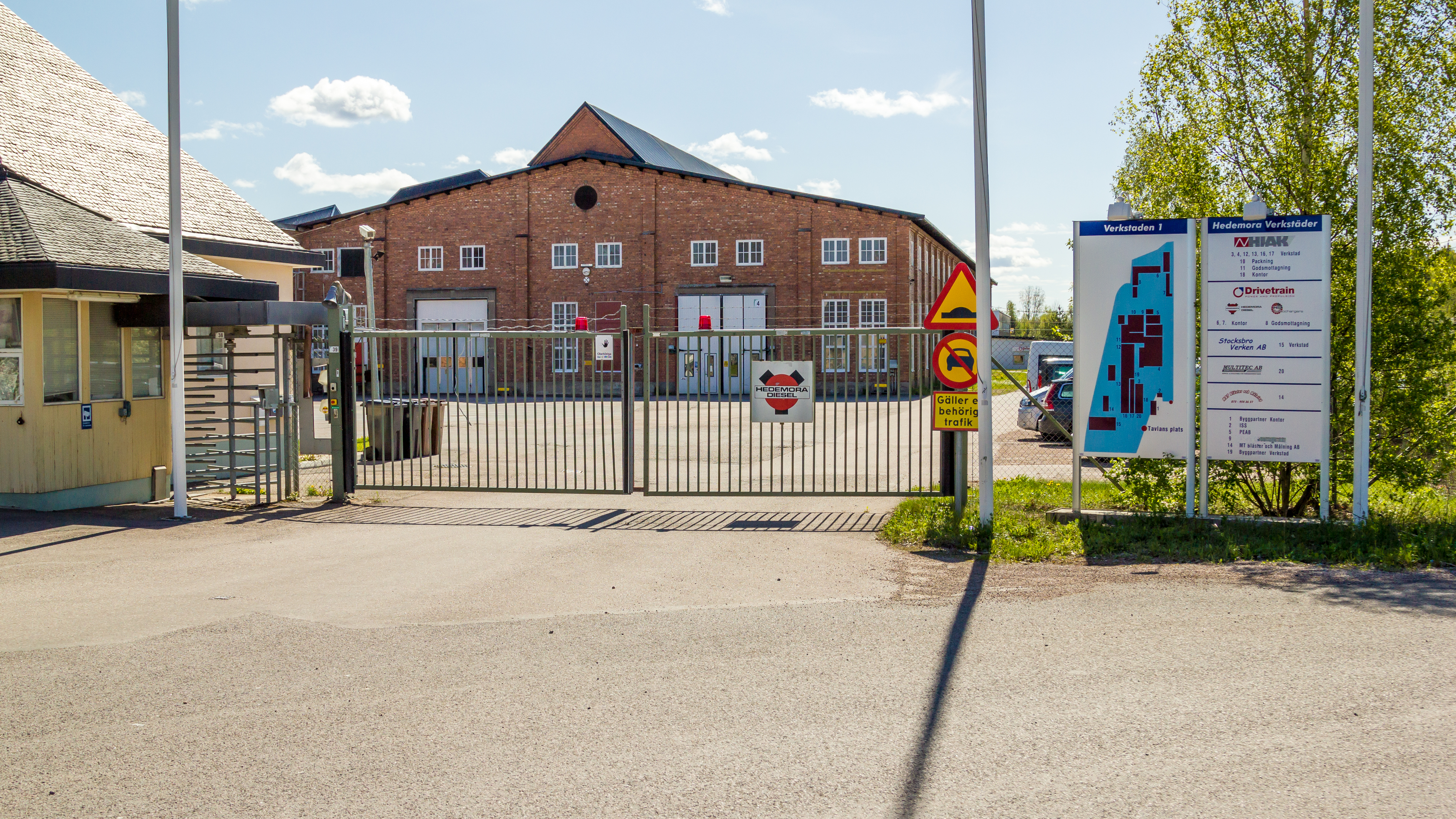 Gates to Hedemora Diesel (part of former Hedemora Verkstäder). Hedemora, Dalarna County, Sweden.